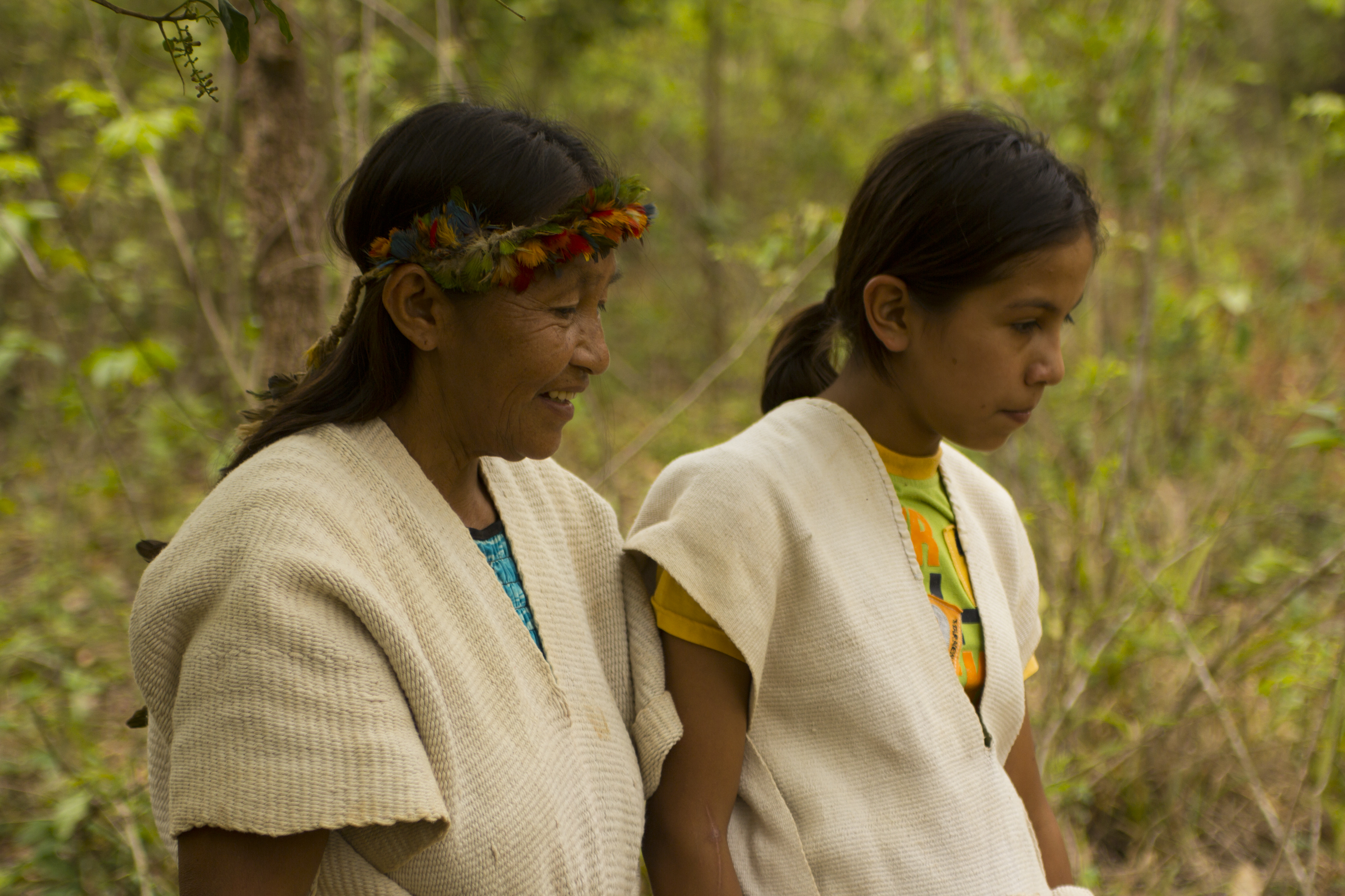 Na Silvia and daughter wearing traditional Guarani Indian clothes